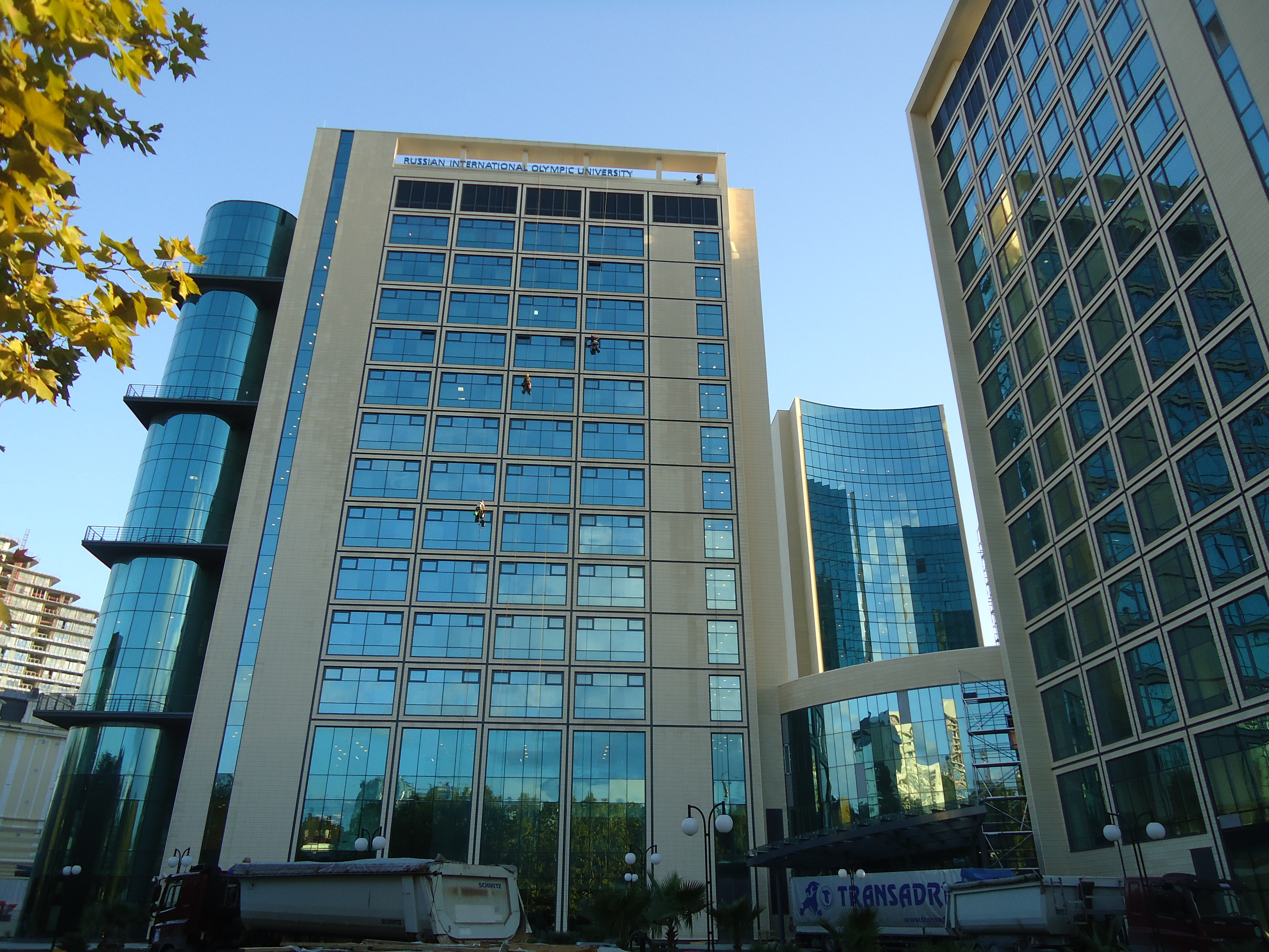 Campus of the Russian International Olympic University in Sochi